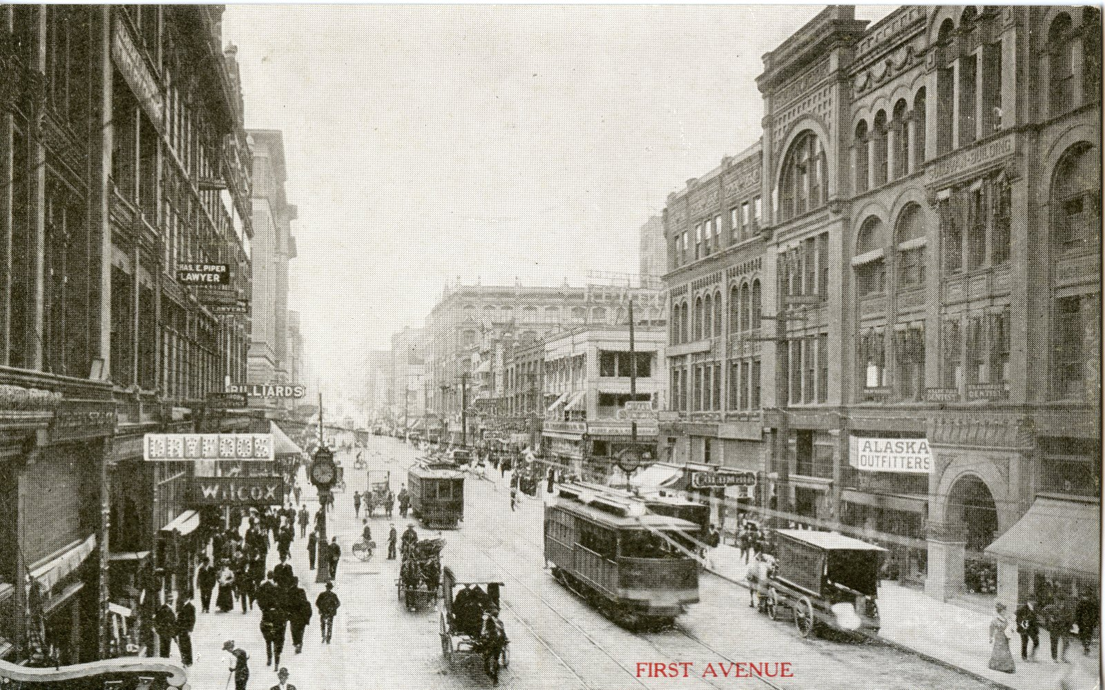 Looking north on First Avenue, Seattle, Washington from just north of Cherry Street, circa 1910. The clock on the left belonged to L. W. Suter. I believe he installed it after he purchased this jewelry store from Gerhard Benninghausen in 1905. He replaced it or remodeled it when he moved up to 2nd. On the right, behind the streetcar, is the clock of Burnett Brothers in the Sullivan Block at 720 First, on the corner of Columbia. They bought out Richards in 1906 and moved up to the Burke Building on 2nd in 1912. [That's at least slightly wrong, because the building on the corner is the Brunswick Hotel; the Sullivan is one building south. - Joe Mabel] (Earlier I thought that this was the clock of Albert Hansen. And while it may actually be the same clock, it's in front of the wrong storefront here. And this is after Hansen moved a half block south.) Postcard published by Reid. There was a lower quality version of this created for the Golden Potlatch in 1911. NOTE: From a set of public domain images collected by Rob Ketcherside. He applied a CC license on Flickr because Flickr does not offer a PD option. The description here is largely his.